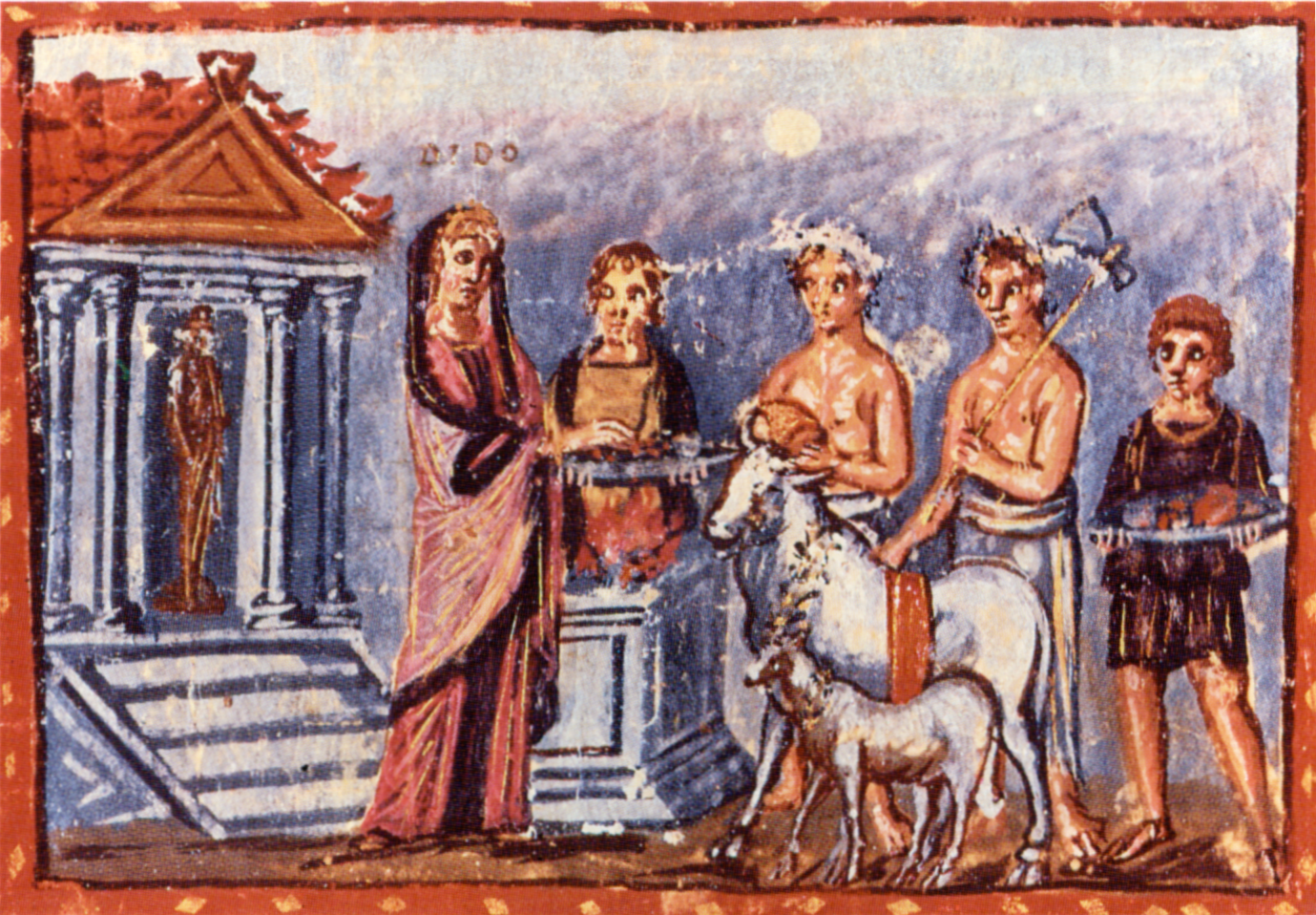 Illustration to Vergil's Aeneid. 33.2cm wide. In the collection of the Biblioteca apostolica Vaticana. MS lat. 3225. fol. 33 v